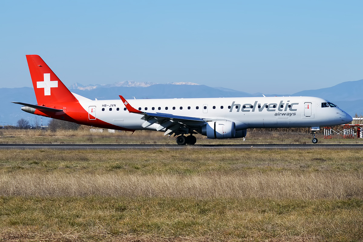 Helvetic Airways, HB-JVN, Embraer ERJ-190LR